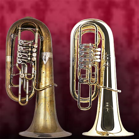 Two F Tubas: 2004 Model Perantucci "5099" and an earlier model, both by B&S.